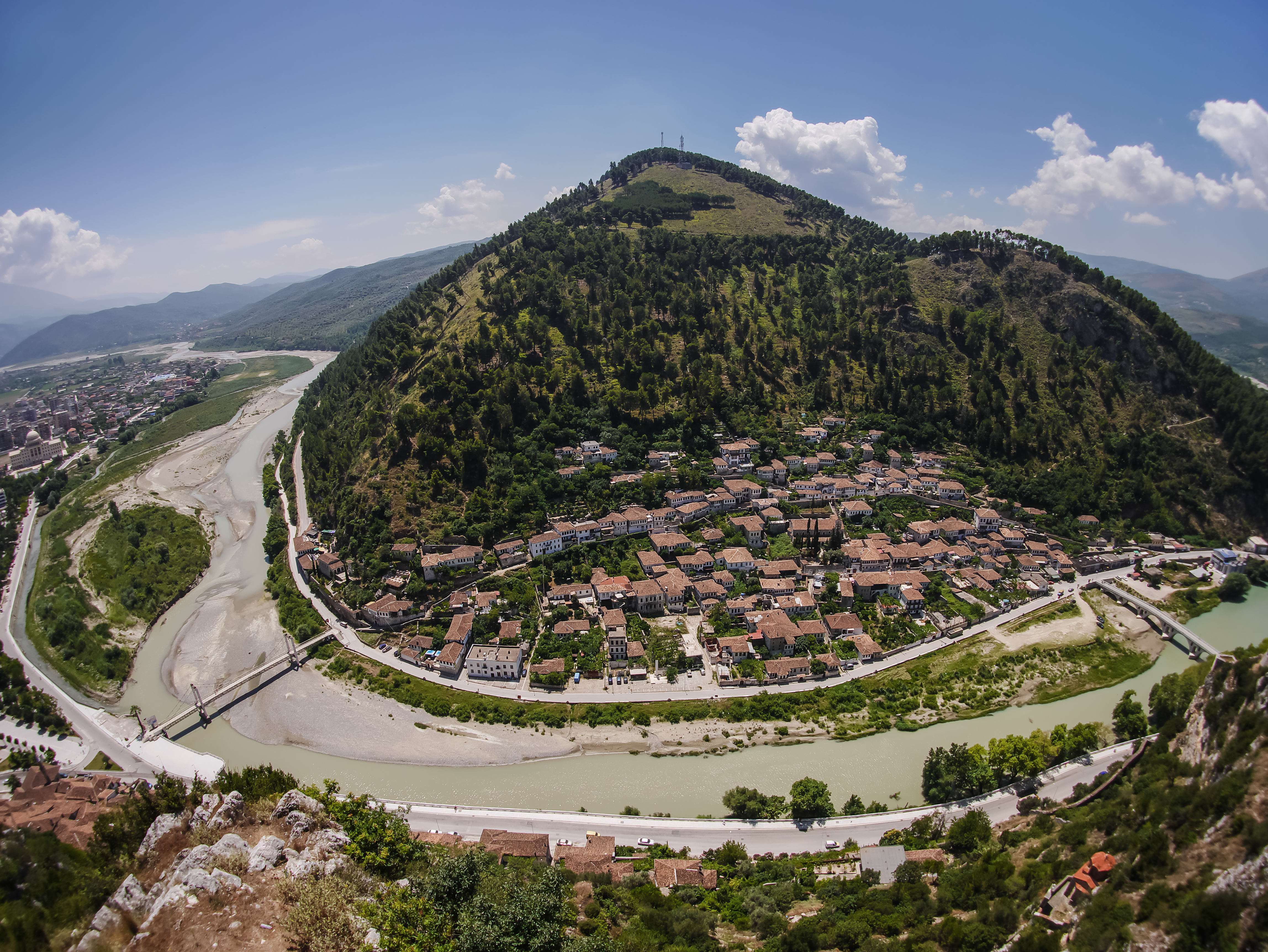 View over the Gorica district